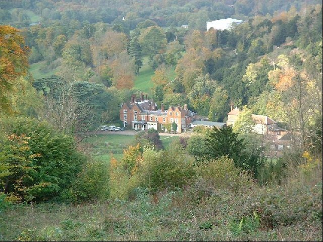 Juniper Hall Field Centre. Picture of Juniper Hall Field Centre taken from Broadwood's Folly on Box Hill looking north.